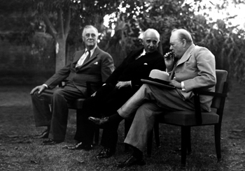 US President Roosevelt, Turkish President Inönü and British Prime Minister Churchill at the Second Cairo Conference on December 4-6, 1943.